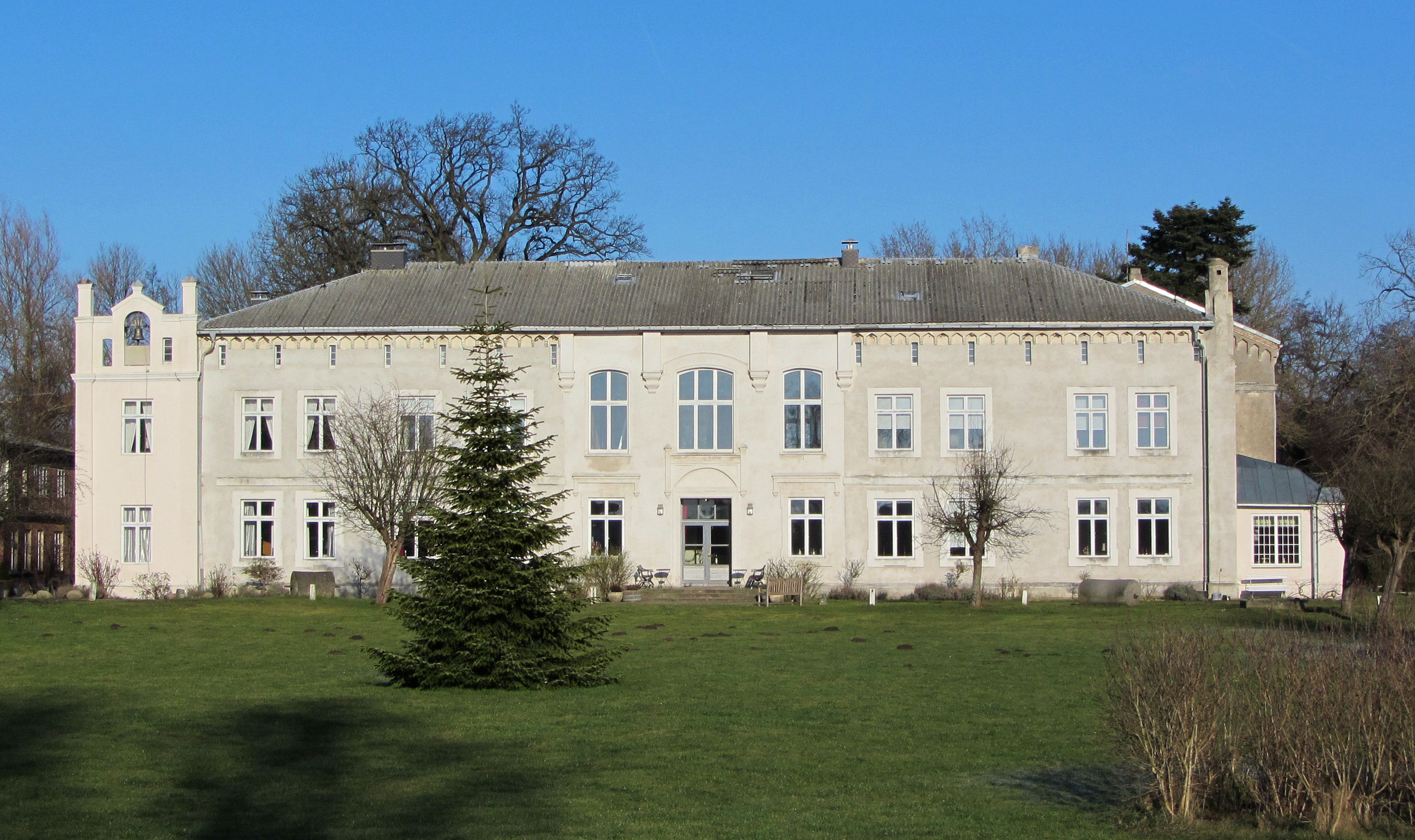 Manor house in Roggow, district Rostock, Mecklenburg-Vorpommern, Germany